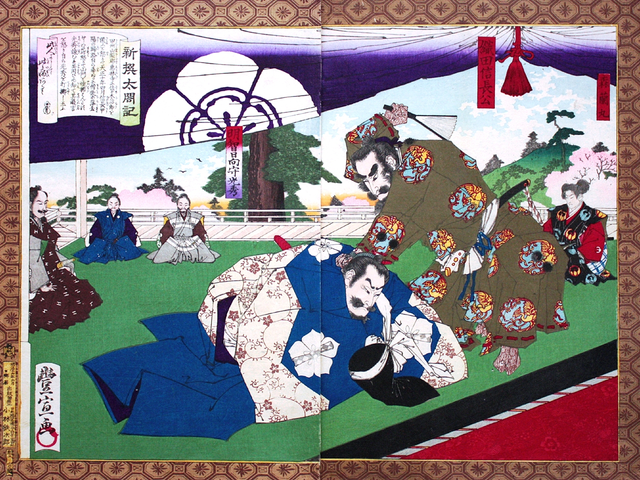 An ukiyo-e of Oda Nobunaga strikes Akechi Mitsuhide in "Shinsen-Taikōki"